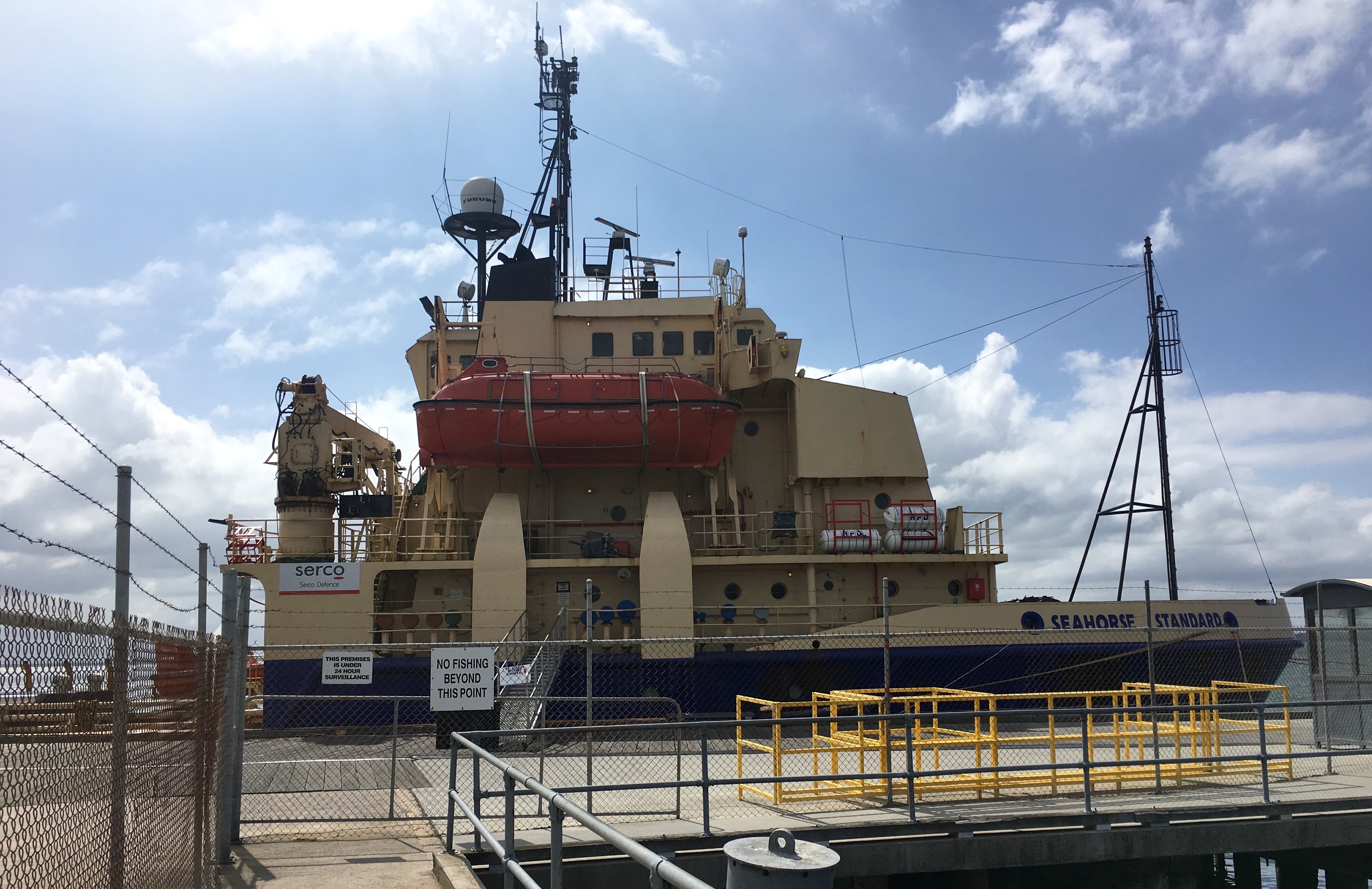 Seahorse Standard docked at Serco's Southern Australia Support Group facility.